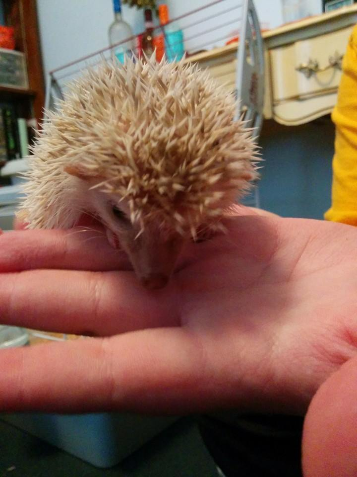 Pet Hedgehog